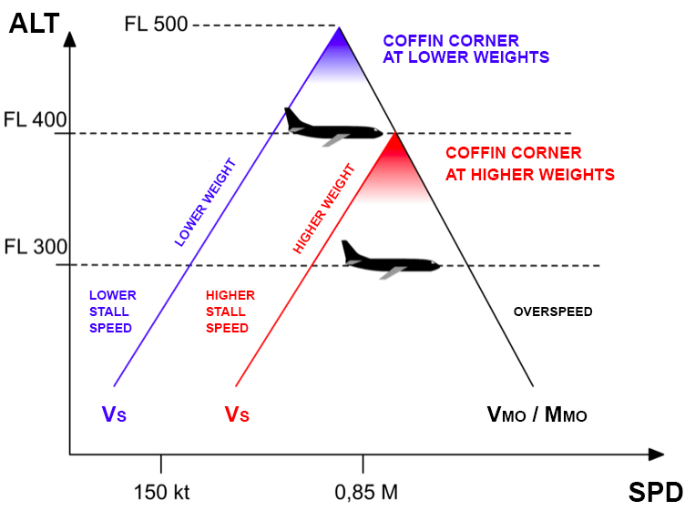 Coffin Corner is inversely proportional to Weight